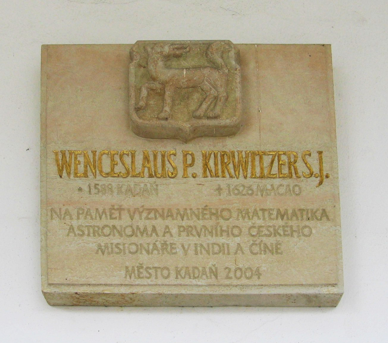 Commemorative plaque of the czech astronomer and missionary W.P.Kirwitzer in Kadaň, Czech Republic.